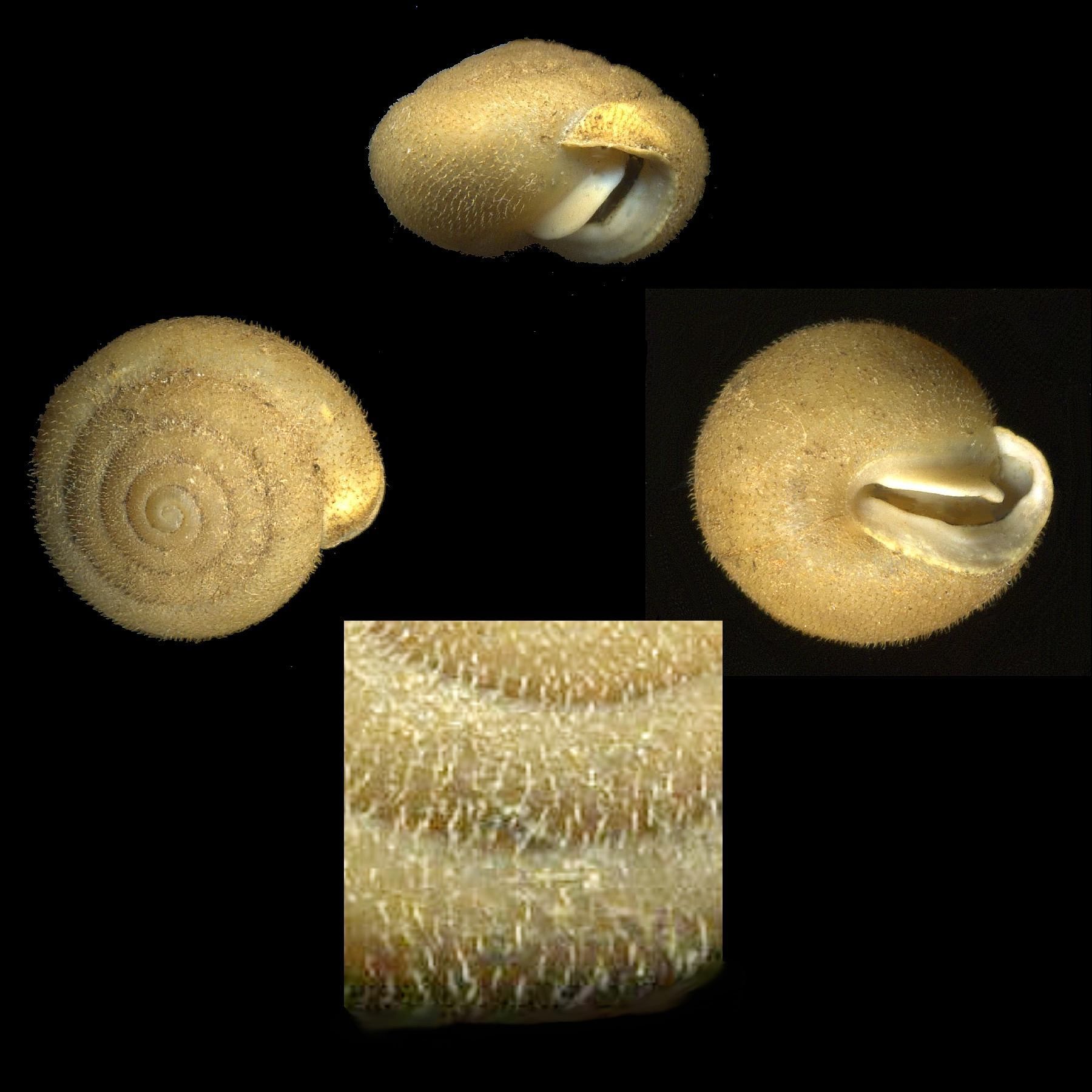 The polygyrid land snail Stenotrema florida from Liberty County, Florida, 1964; with a close-up view of the periostracal "hairs" typical of the genus. (Snails about 13 mm in diameter, or 1/2 inch.)